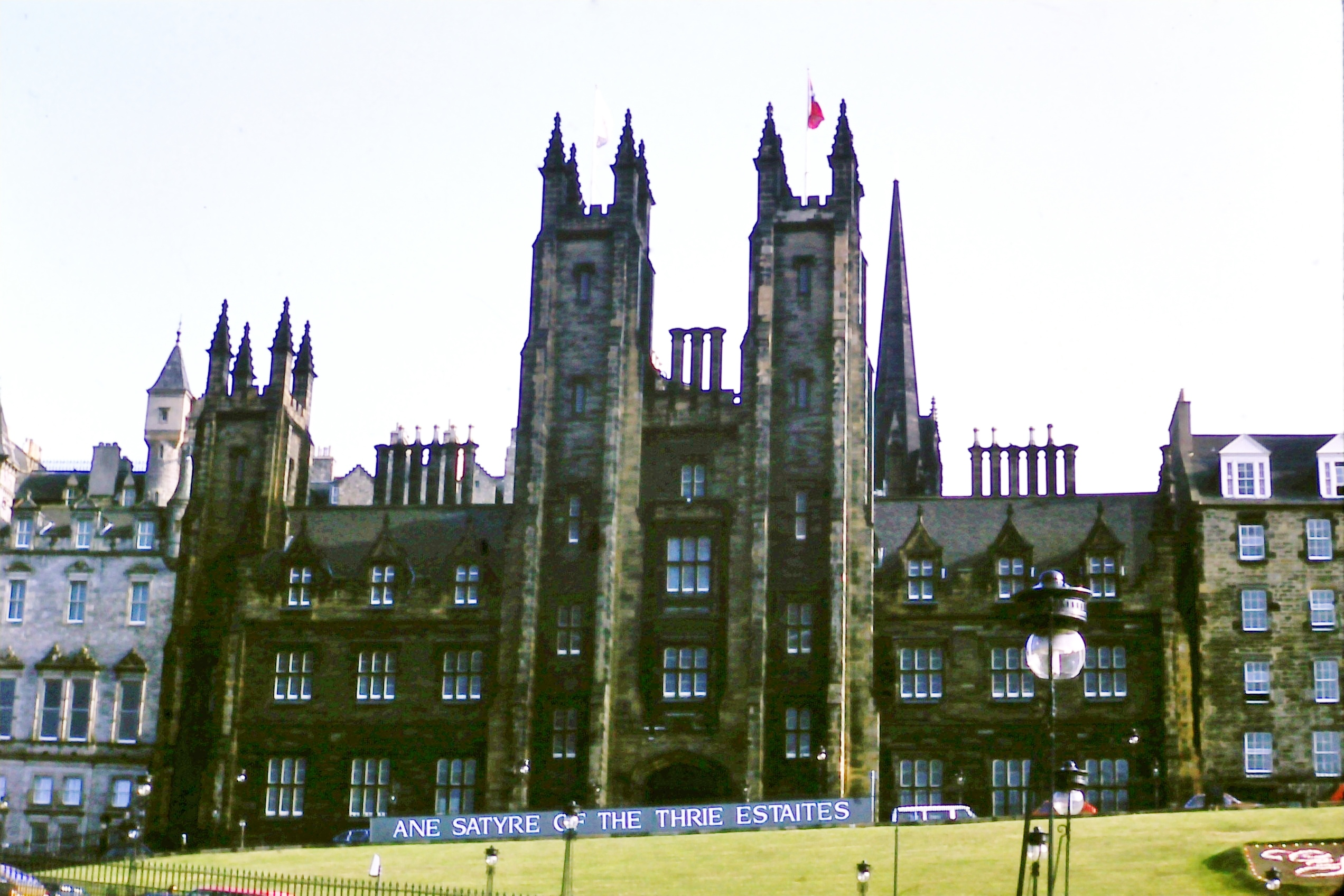 New College, Edinburgh was the venue for the 1982 production of Sir David Lindsay's 'Ane Pleasant Satyre of the Thrie Estaitis', first performed in 1552.